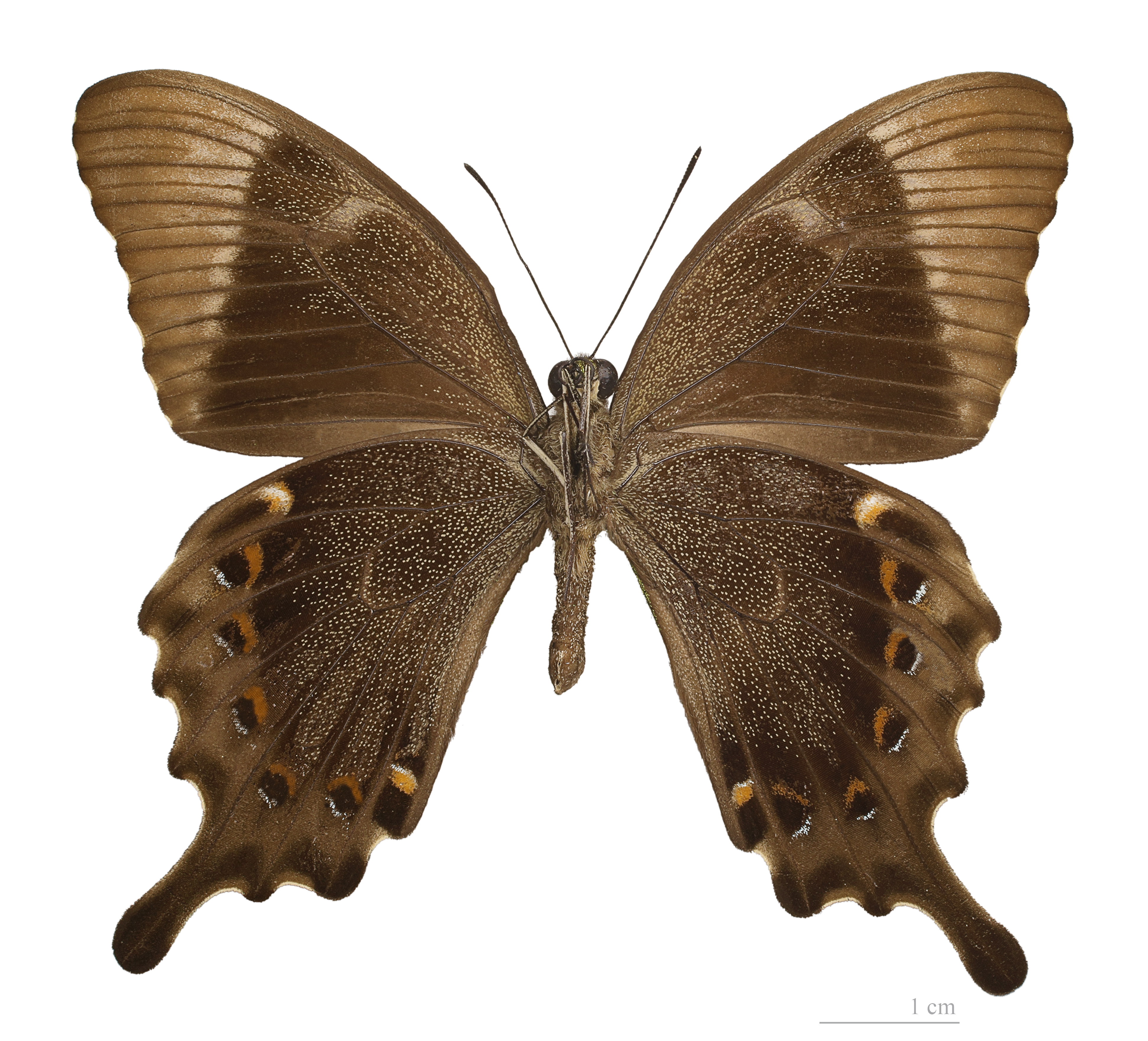 △ Ventral side